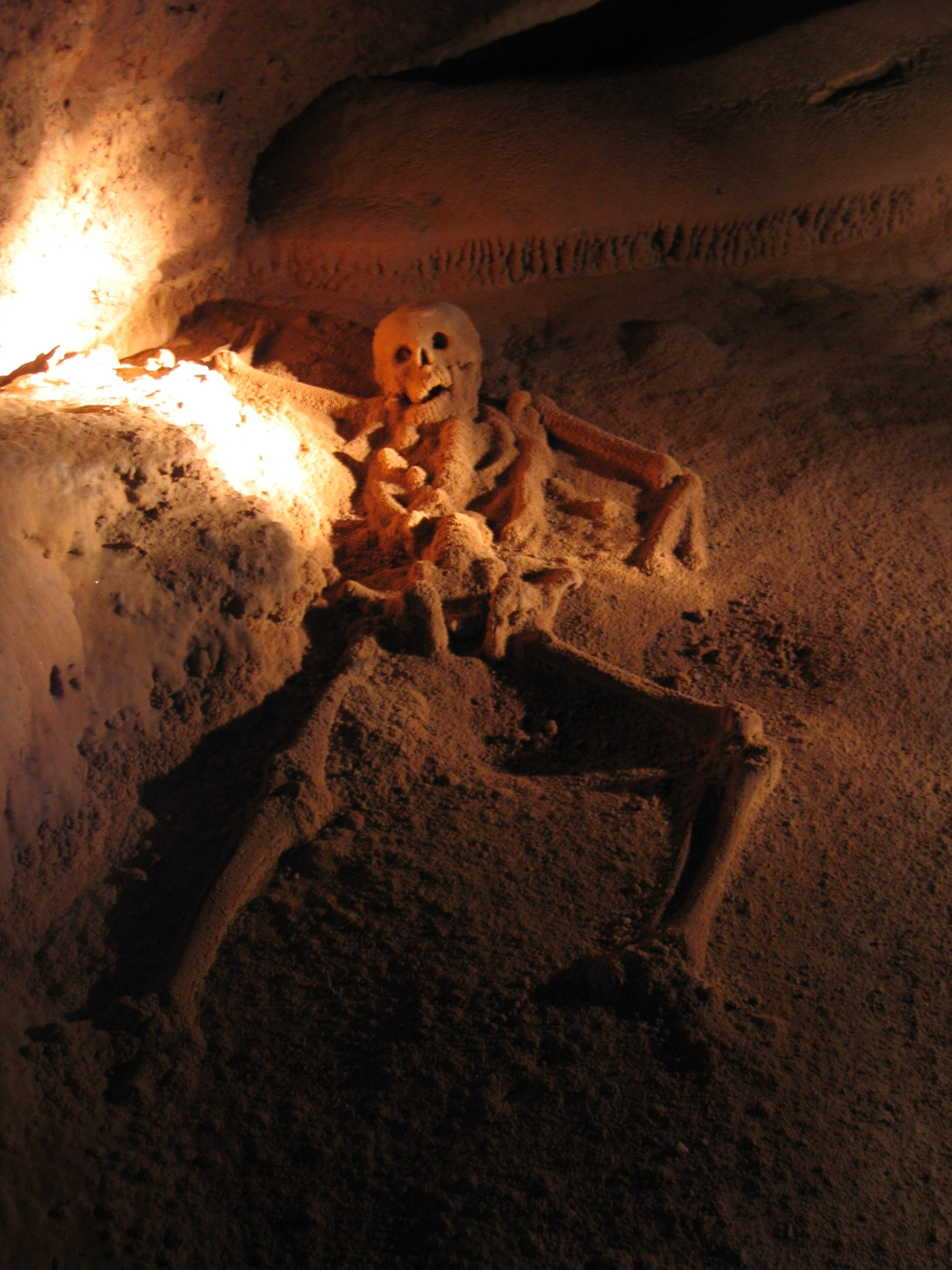 Photograph of Maya sacrifice taken from within the cave Actun Tunichil Muknal in Belize. This skeleton is popularly known as the "Crystal Maiden".